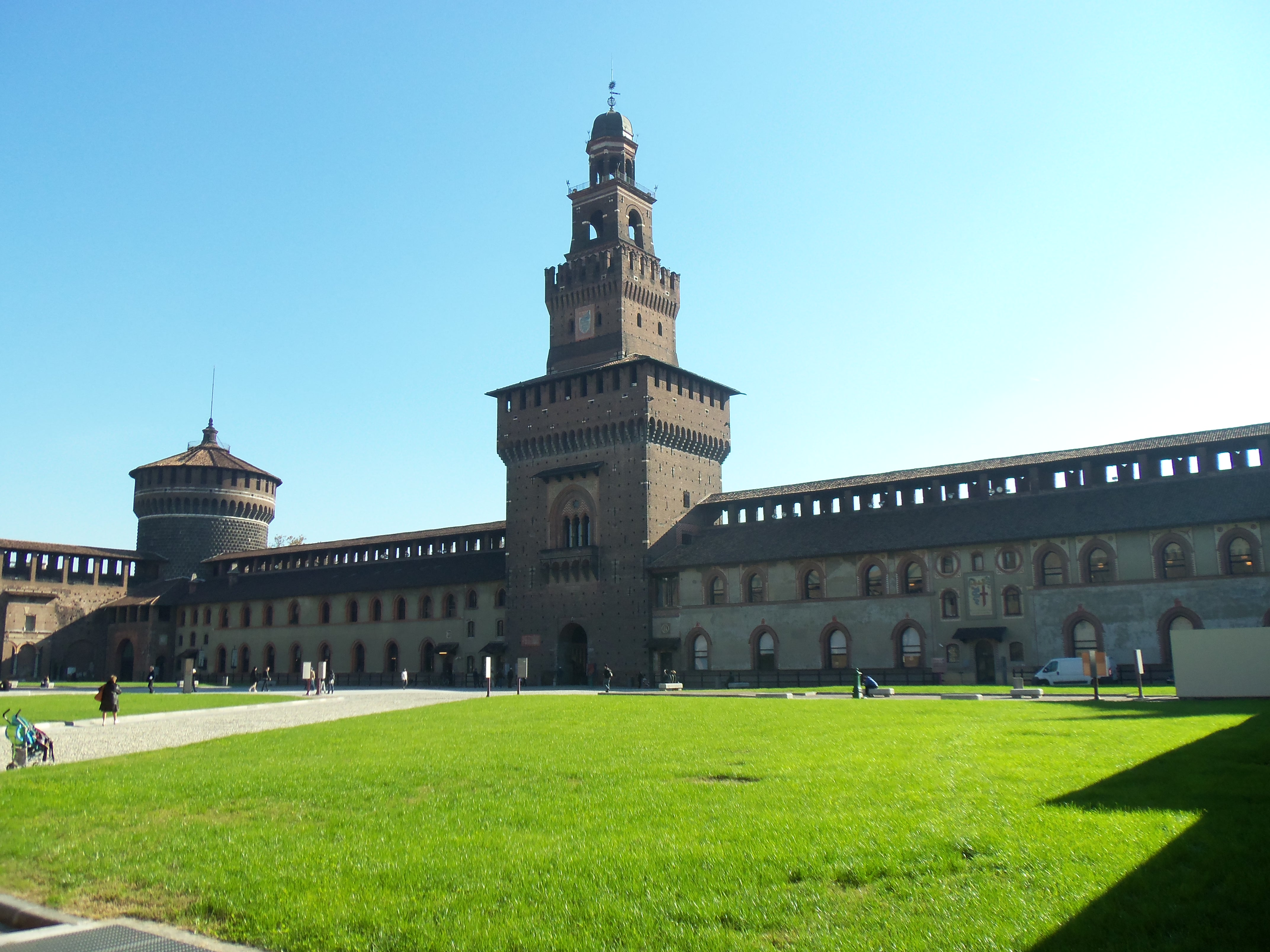 Piazza d'armi court